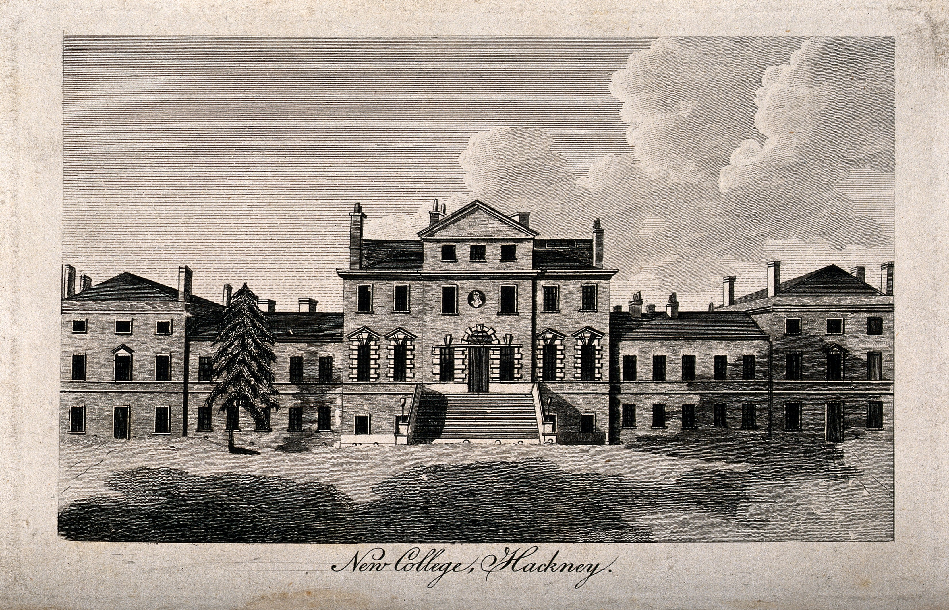 New College [Hackney House], Hackney: a large building in the Palladian style, with a bust in a niche above the entrance. Engraving, c.1786. Iconographic Collections Keywords: Colen Campbell